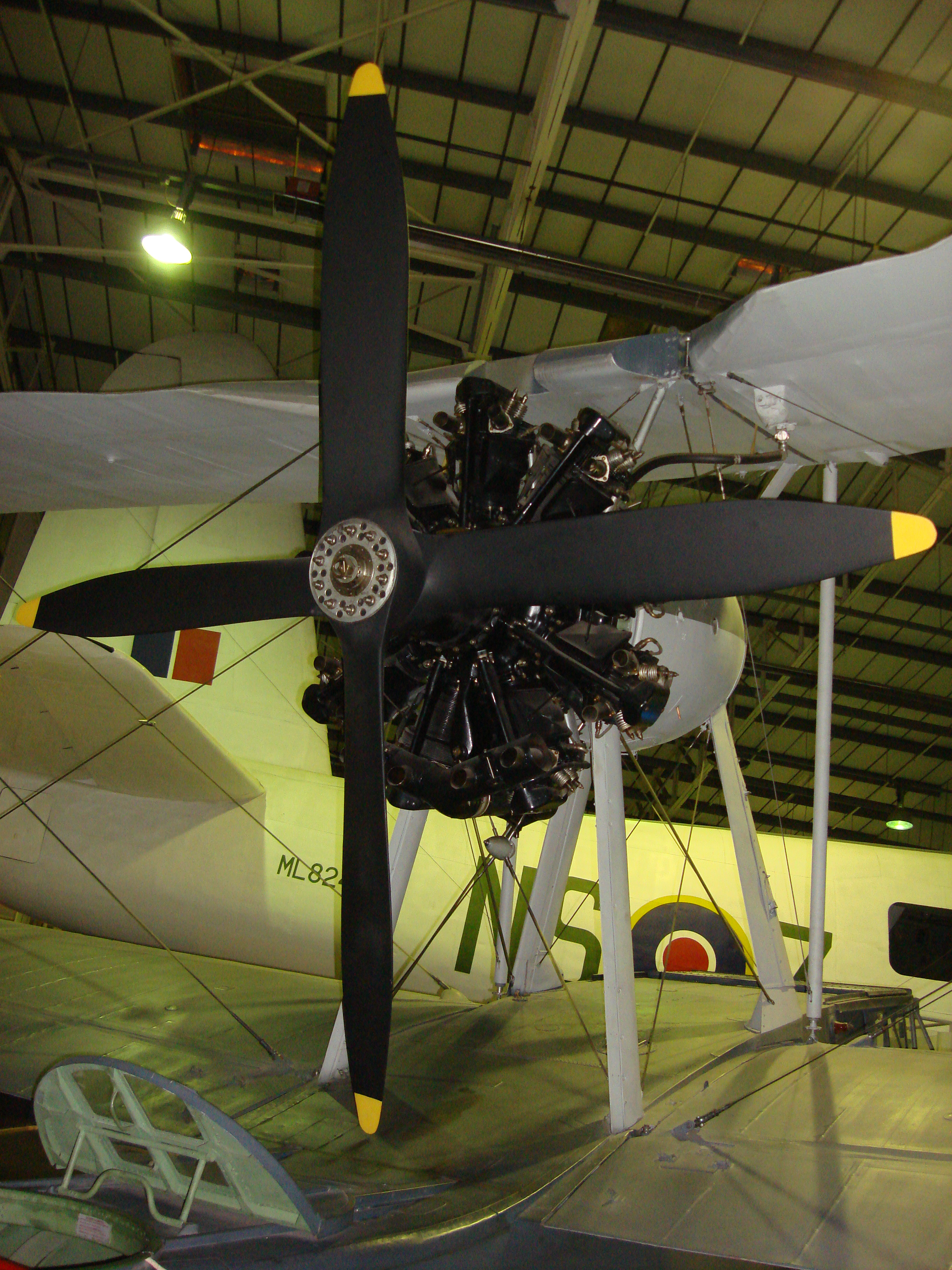 Supermarine Seagull V (Supermarine Walrus), A2-4/VH-ALB, on display in RAF markings at the RAF Museum in London.